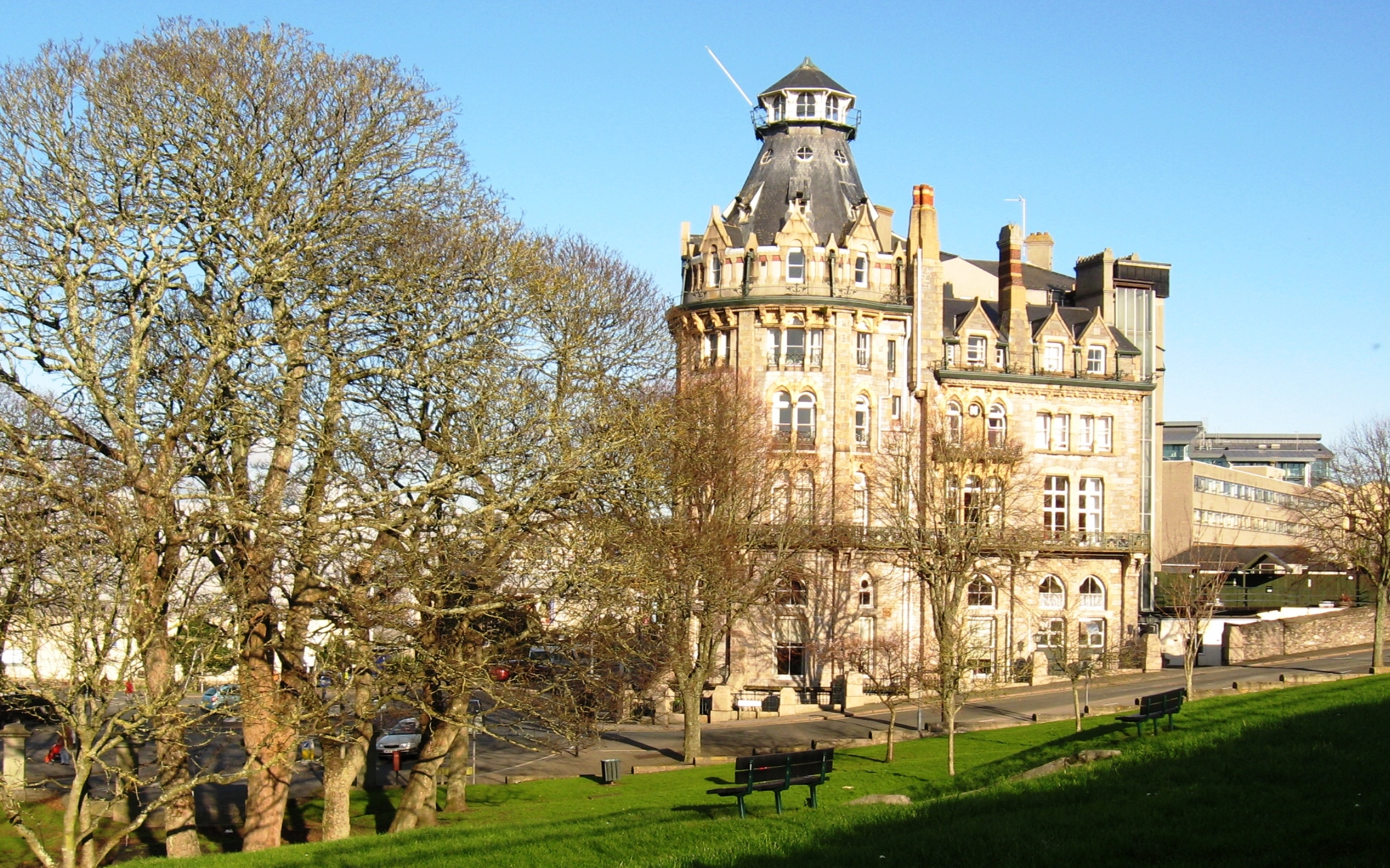 On Millbay Road